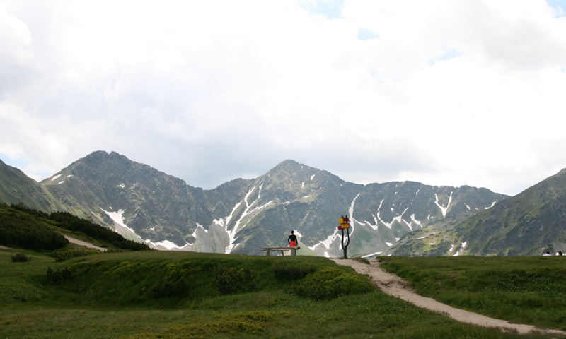 Roháče (Western Tatras, Slovakia), mountains Ostrý Roháč and Plačlivé in background